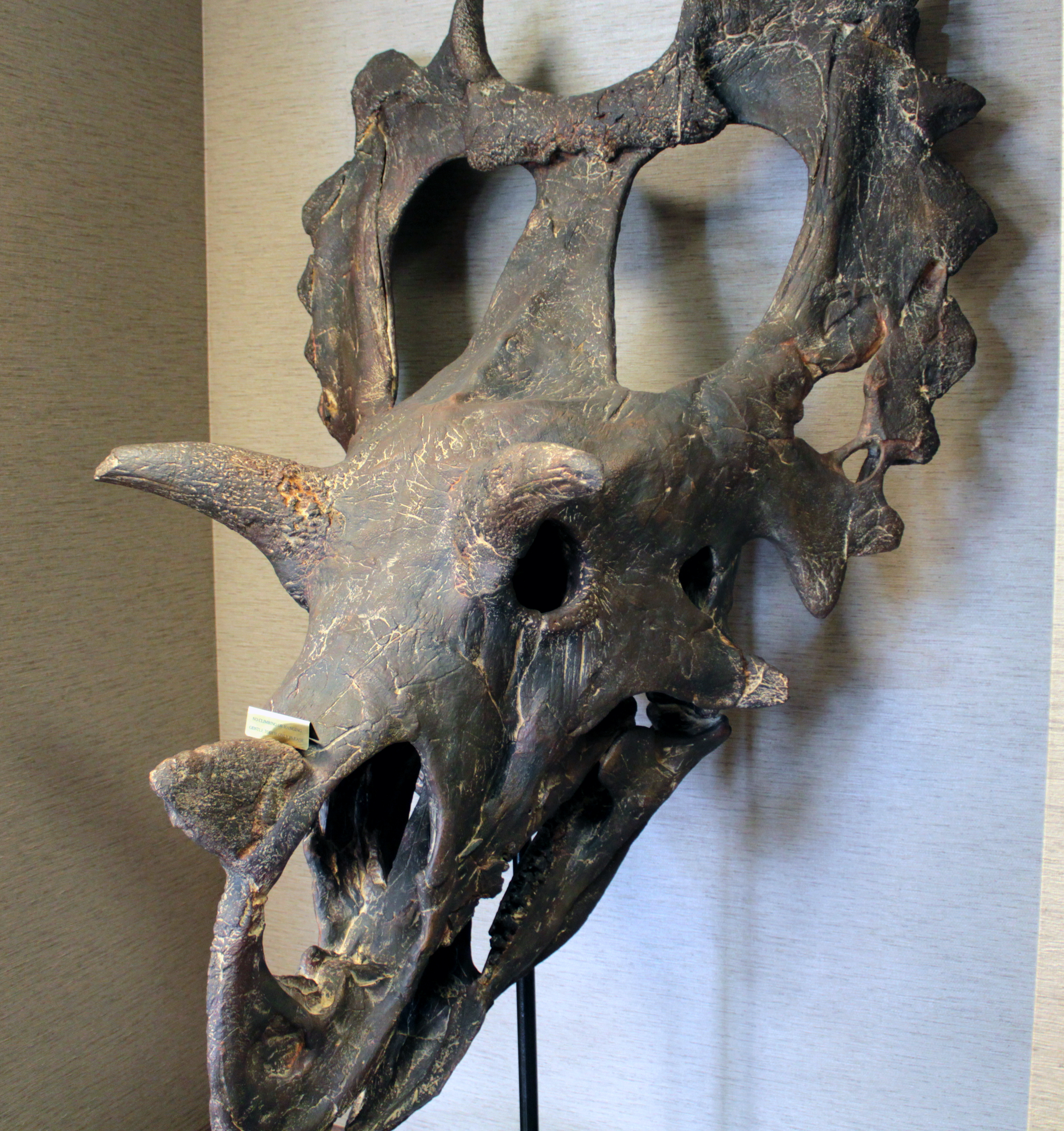 Spiclypeus nicknamed "Judith". Best Western Denver Southwest